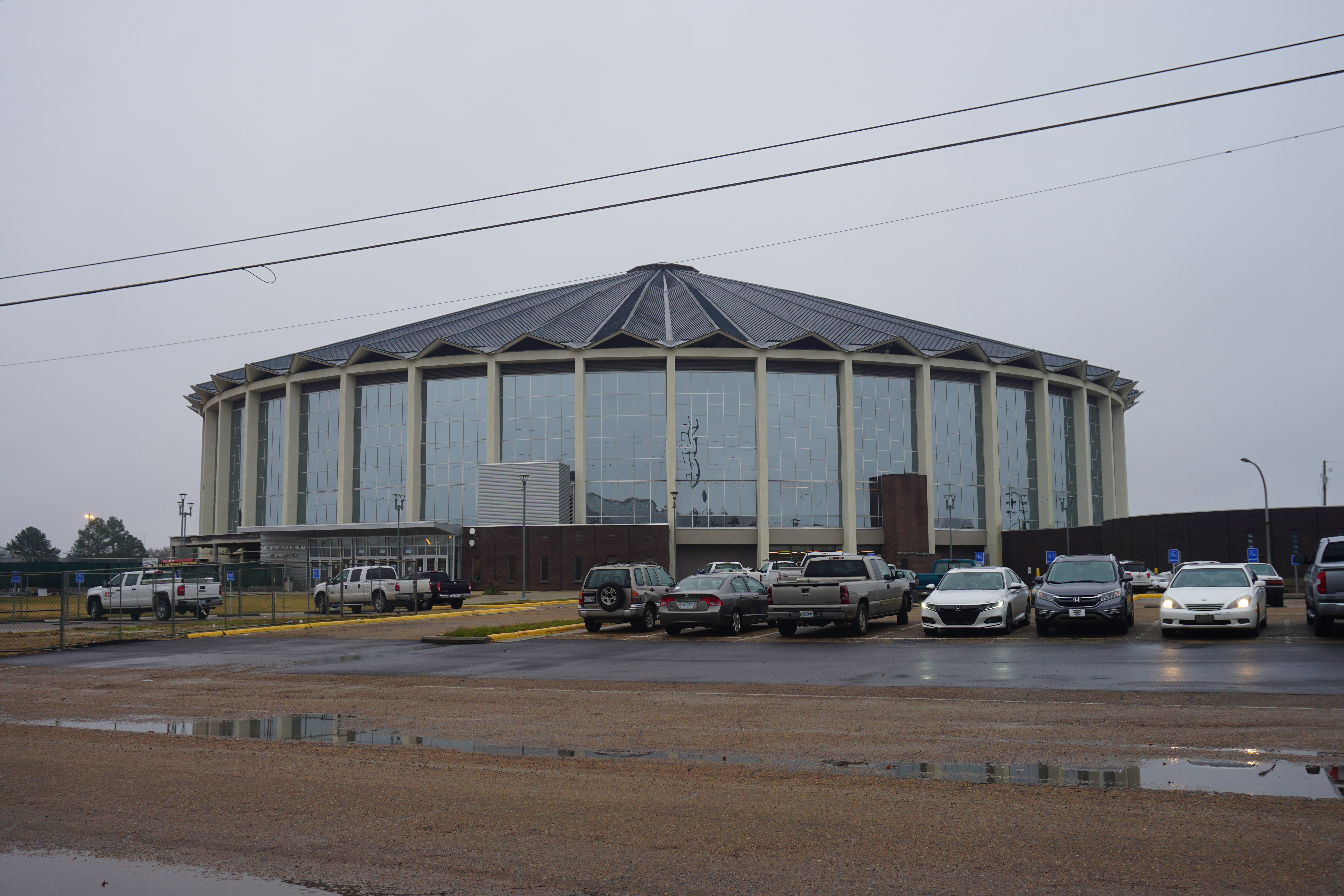 The Mississippi Coliseum at the Mississippi State Fairgrounds in Jackson, Mississippi (United States).